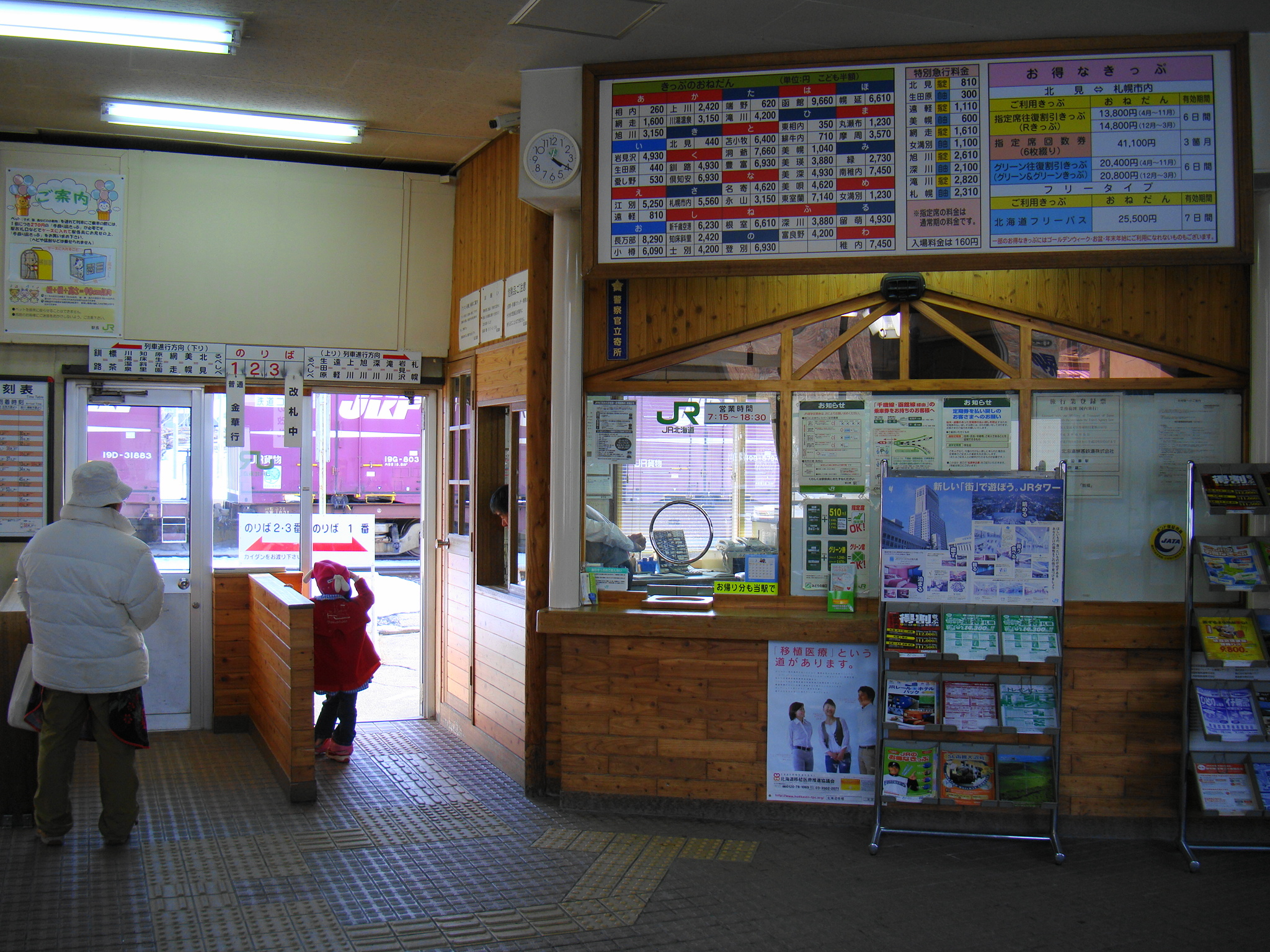 Rubeshibe Station